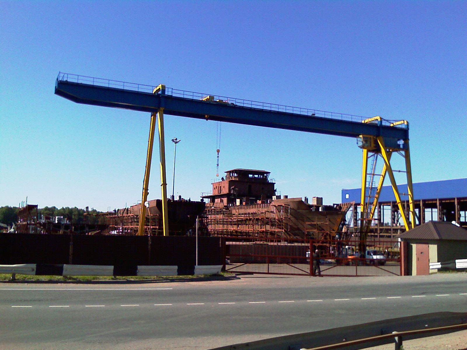 Pella shipyard